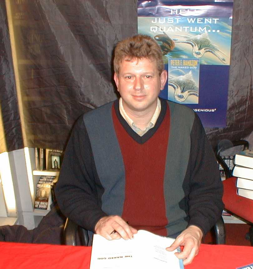 Summary Peter F. Hamilton signing his Night's Dawn Trilogy Books in London.